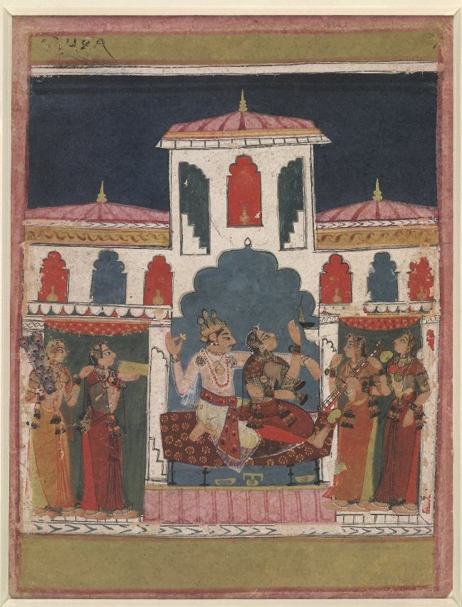 Dipaka_Raga._ca._1650,_Malwa._British_Museum,_London.j